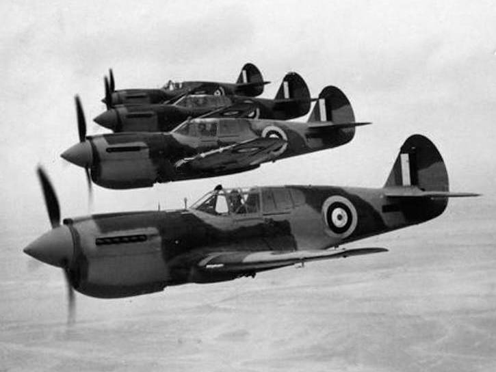 Mildura, Vic, 1942-06-16. Four Curtiss P-40 Kittyhawk fighter aircraft in echelon right formation at No. 2 (Fighter) Operational Training Unit, RAAF. They were flown by: front to rear, Wing Commander Peter Jeffrey, DSO, DFC, Flight Lieutenant Clive Wawn, DFC, Squadron Leader Keith Truscott, DFC and Bar, and Flight Lieutenant Frank Fischer, DFC.